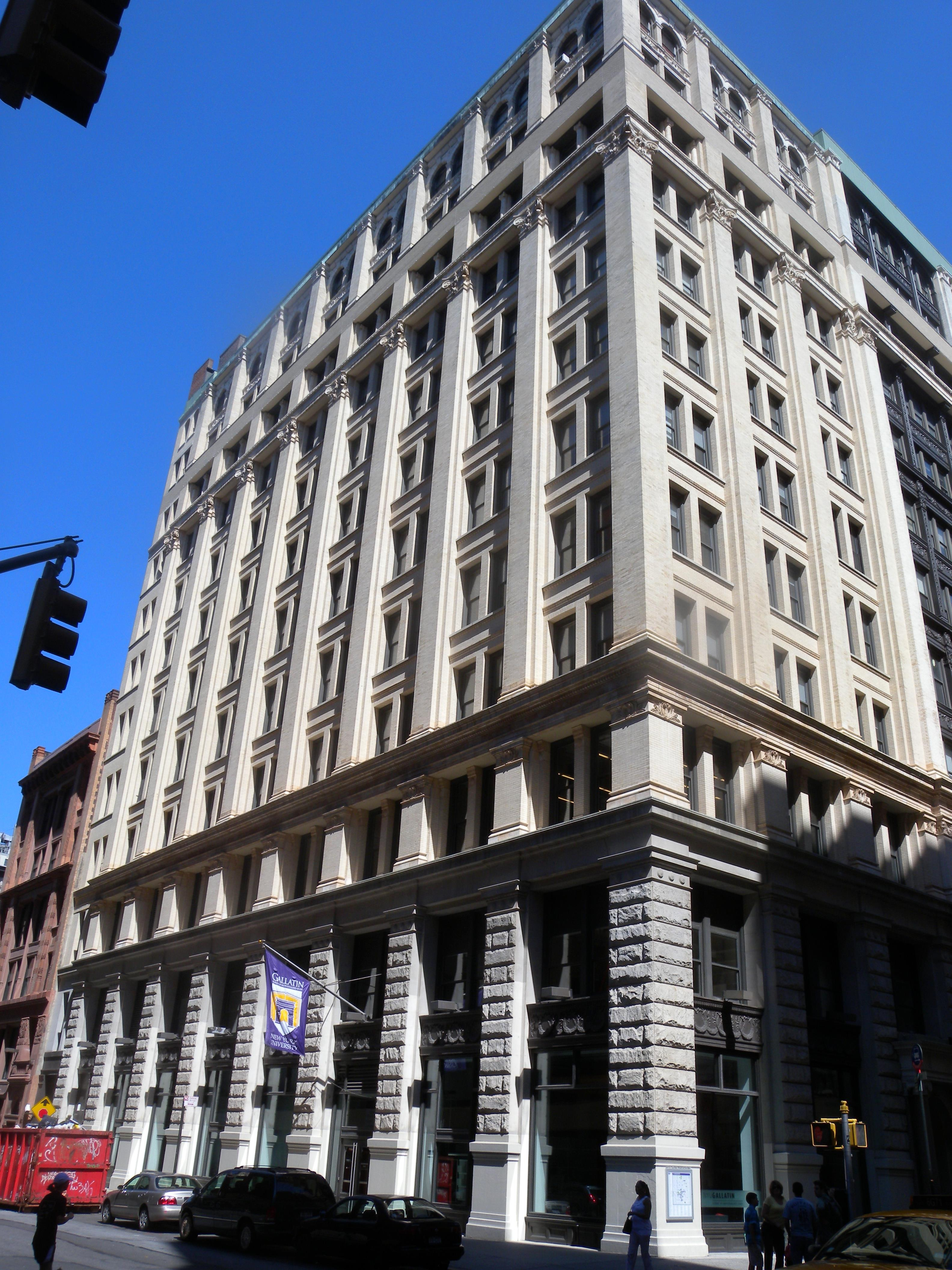 Looking north across Broadway and Washington Place at Gallatin School on a sunny morning.